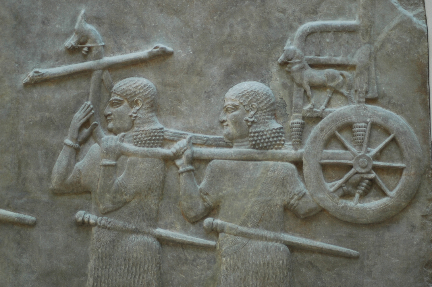 Servants holding the rolling throne of the king, detail. Low-relief from Sargon II's palace at Dur Sharrukin in Assyria (now Khorsabad in Iraq), c. 713–716 BC.